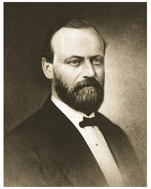 A picture of Joseph Schlitz, founder of Schlitz Breweries